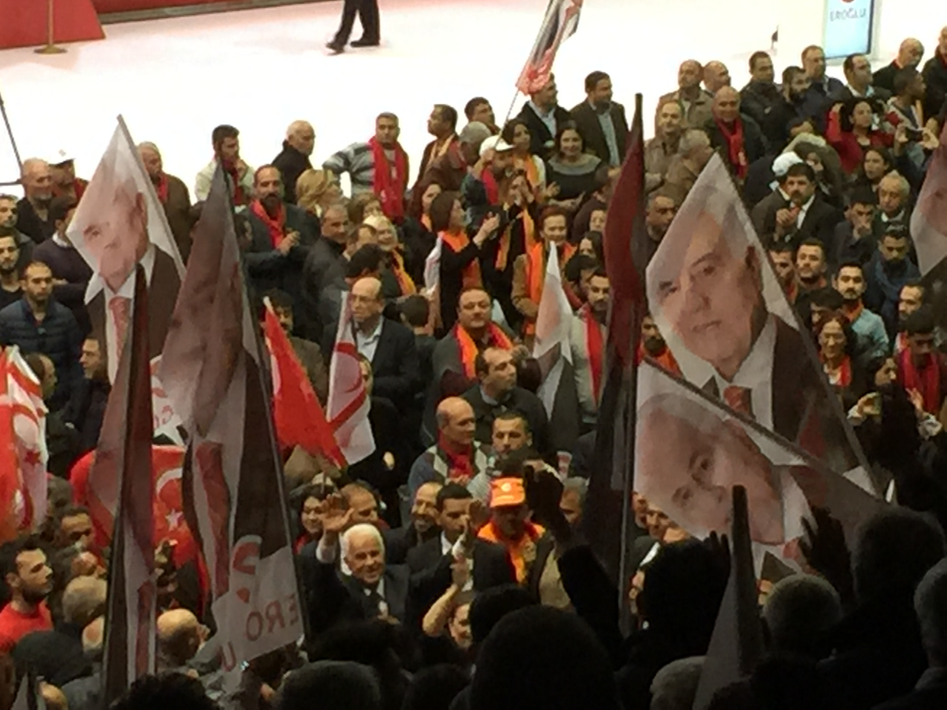 A view from the first rally of Derviş Eroğlu in the Northern Cyprus presidential election of 2015, in Atatürk Sports Hall.